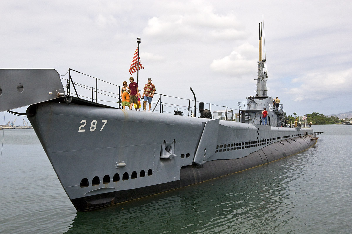 The floating museum known as USS Bowfin (SS 287). Quite cramped in there, let me tell you..